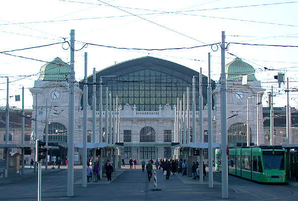 Railway station SBB and the Centralbahnplatz in Basel, Switzerland